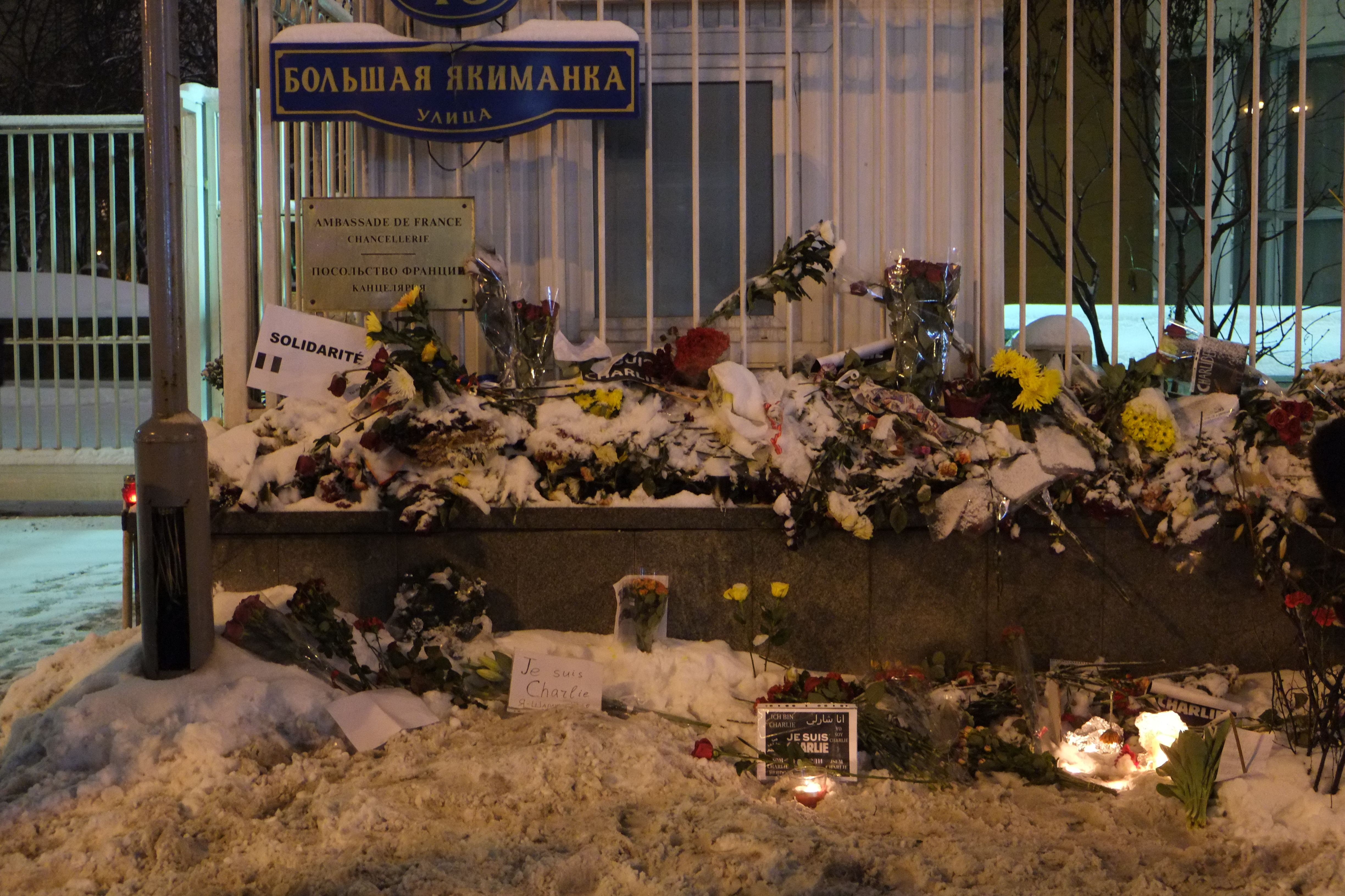 Moscow rally in support of the victims of the 2015 Charlie Hebdo shooting, near the Embassy of the Republic of France, 2015-01-11.